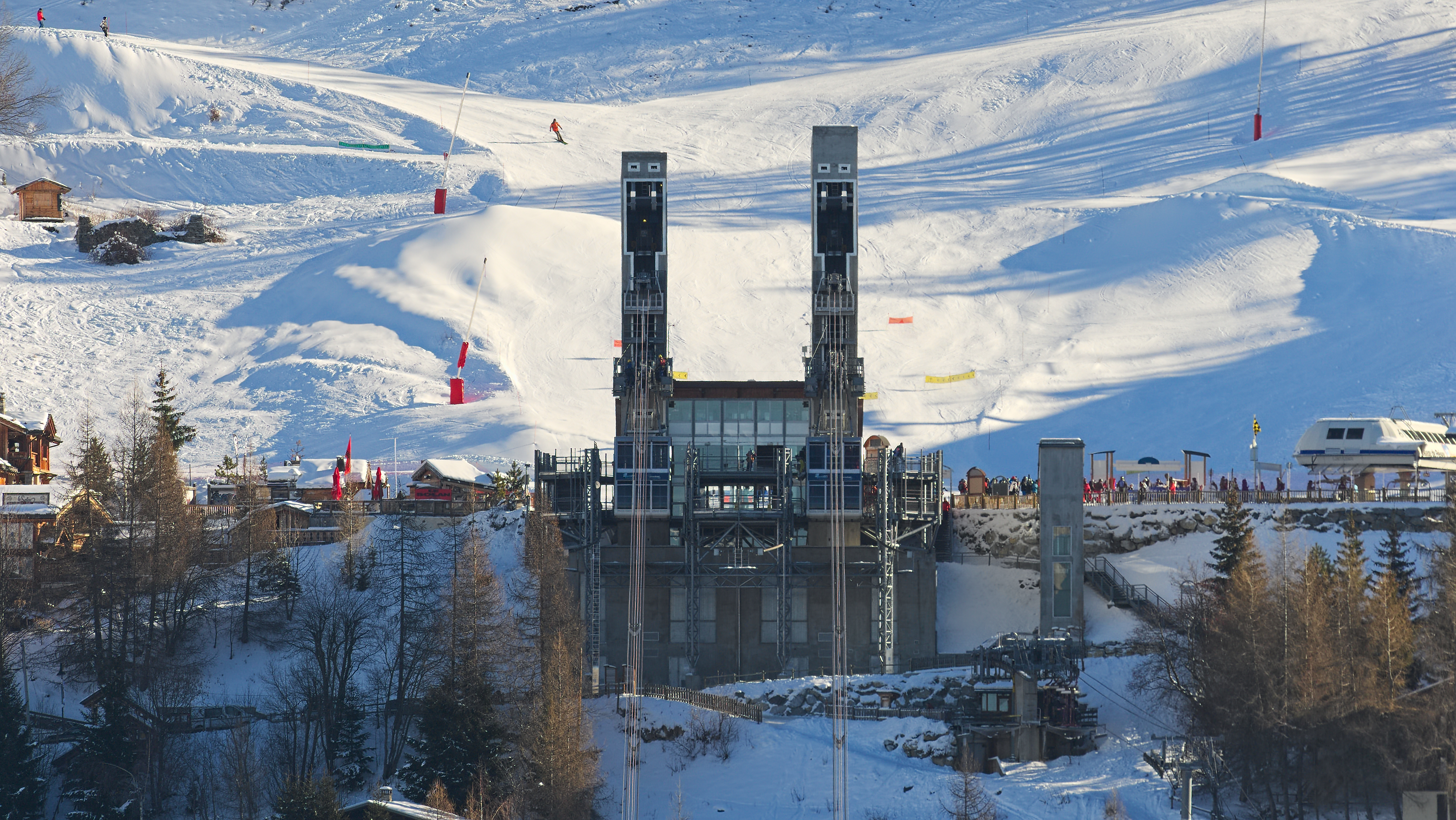 Paradiski, Vanoise Express, view towards Les Arcs. Taken in La Plagne, Vanoise Express, Savoie, France.